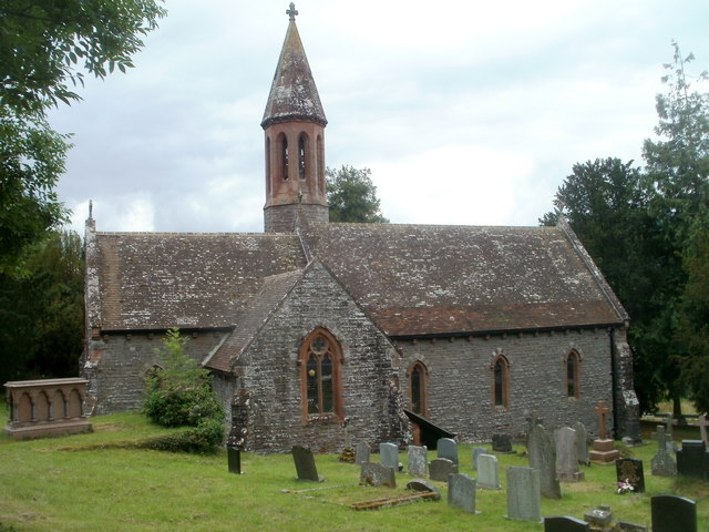 St Bridget's parish church, Llansantffraed, Powys, seen from the north